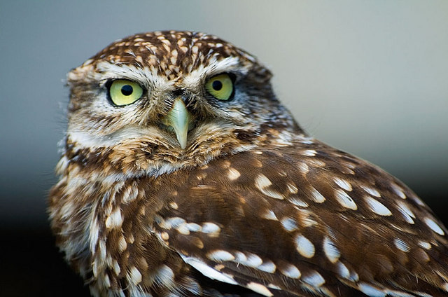 An owl called Muppet! Taken at the Falconry Centre at Kirby Wiske.